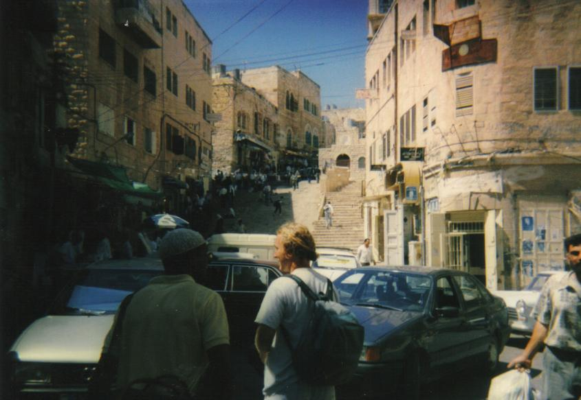 Central Bethlehem, Palestine